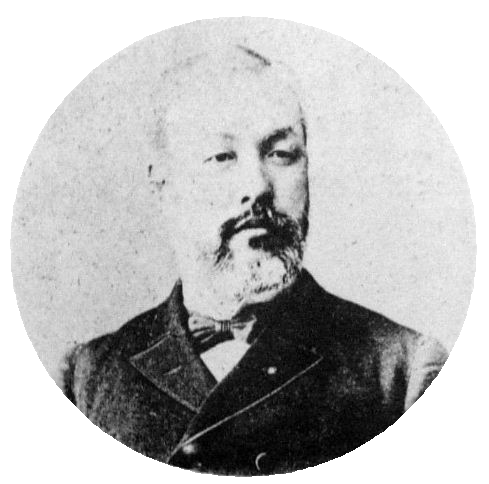 a Japanese man 林董 (Shoin Yoshida)